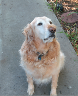 American Golden Retriever